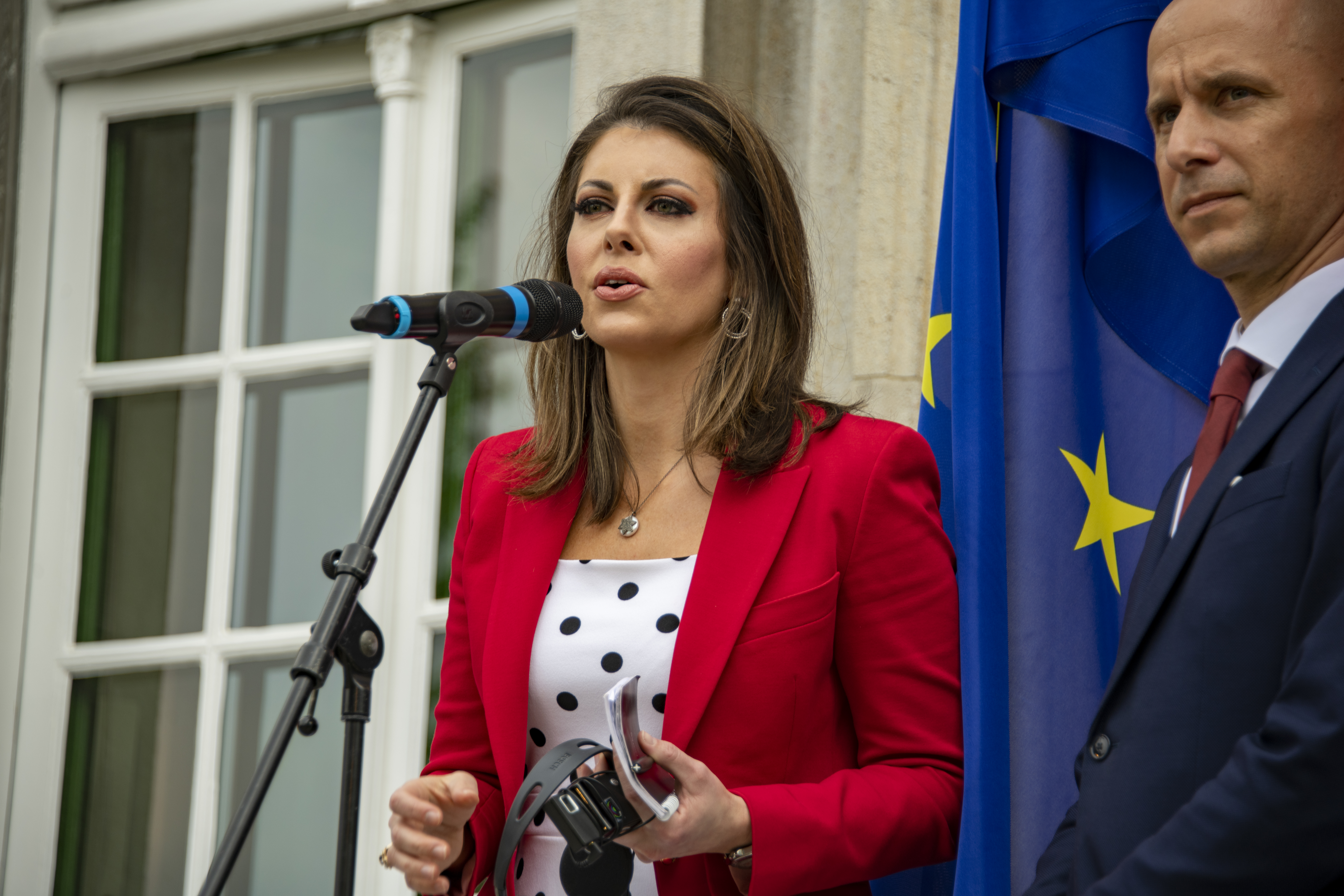 U.S. Department of State Spokesperson Morgan Ortagus speaks to reporters as U.S. Secretary of State Michael R. Pompeo holds a joint press availability with German Foreign Minister Heiko Maas in Berlin, Germany, on May 31, 2019. [State Department Photo by Ron Przysucha/ Public Domain]